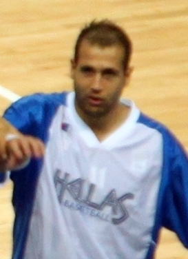 The Greek National Team of Basketball... Greece edged Turkey in a EuroBasket Quarter-Final thriller. [Turkey 74-76 Greece, Eyrobasket 2009, Poland] Turkey 76-74 Greece